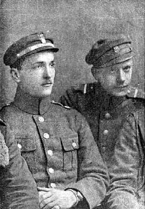 Polish association football players Stefan Loth (left) and Marian Strzelecki while soldiers od Warsaw Legia Akademicka (I baon 36 pp.). As soldiers they played for "military" Pogoń Lwów.